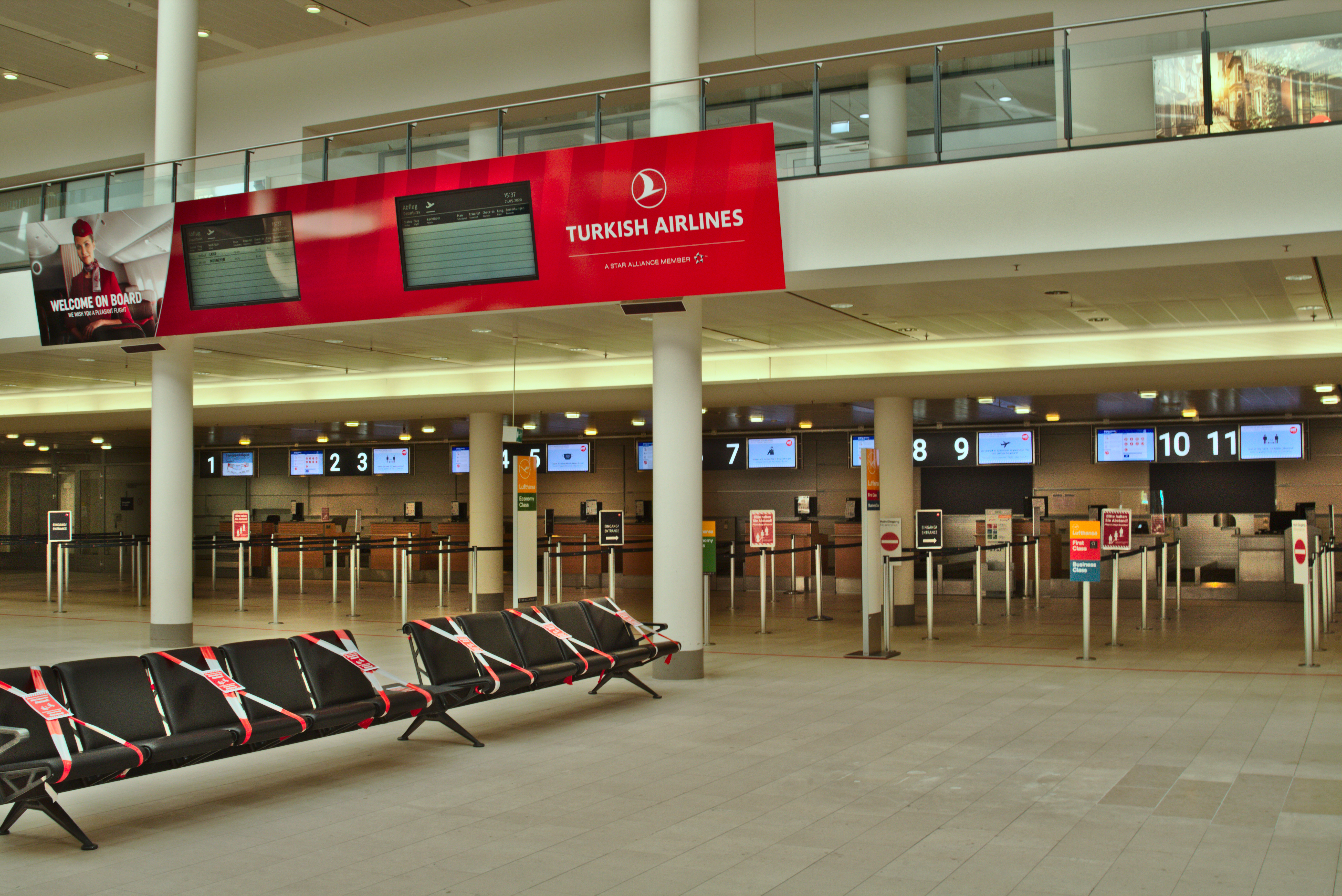 Departure hall of terminal 1 of Bremen Airport, deserted and with unmanned check-in counters during the Covid-19 crisis. Only one passenger aircraft per day departs here. On the bench in the foreground, every second seat is fenced off to comply with the applicable social distancing rules.